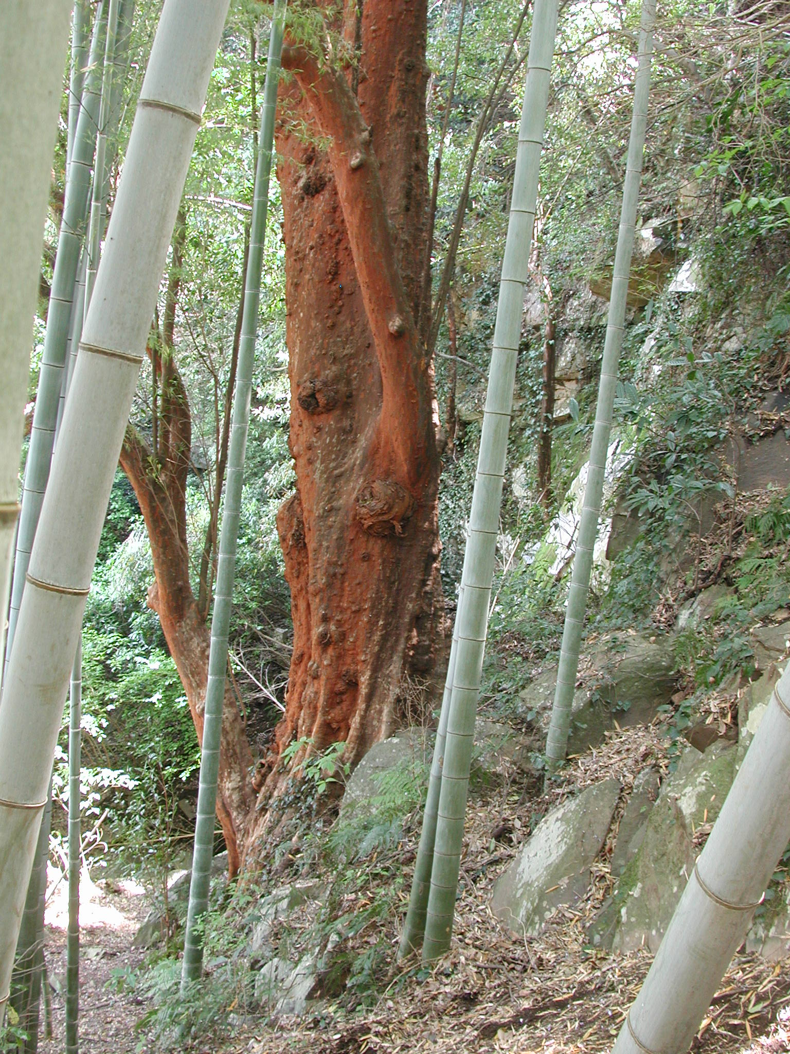 Hayakawa no Biranjyu (Prunus zippeliana in Hayakawa), Japan's natural monument. (Hayakawa, Odawara-shi, Kanagawa)